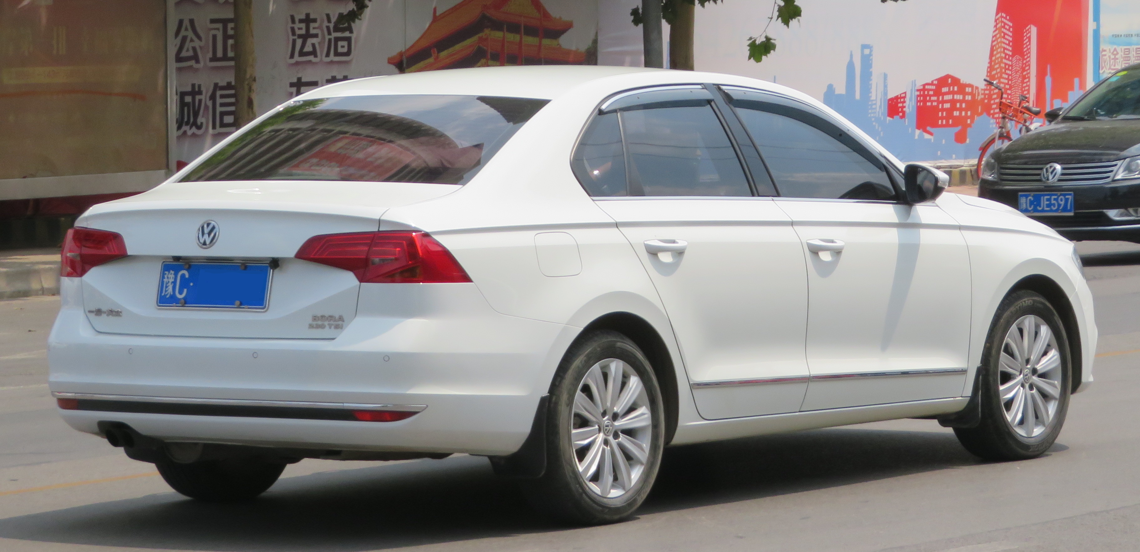 Photographed in Luoyang, Henan province, China